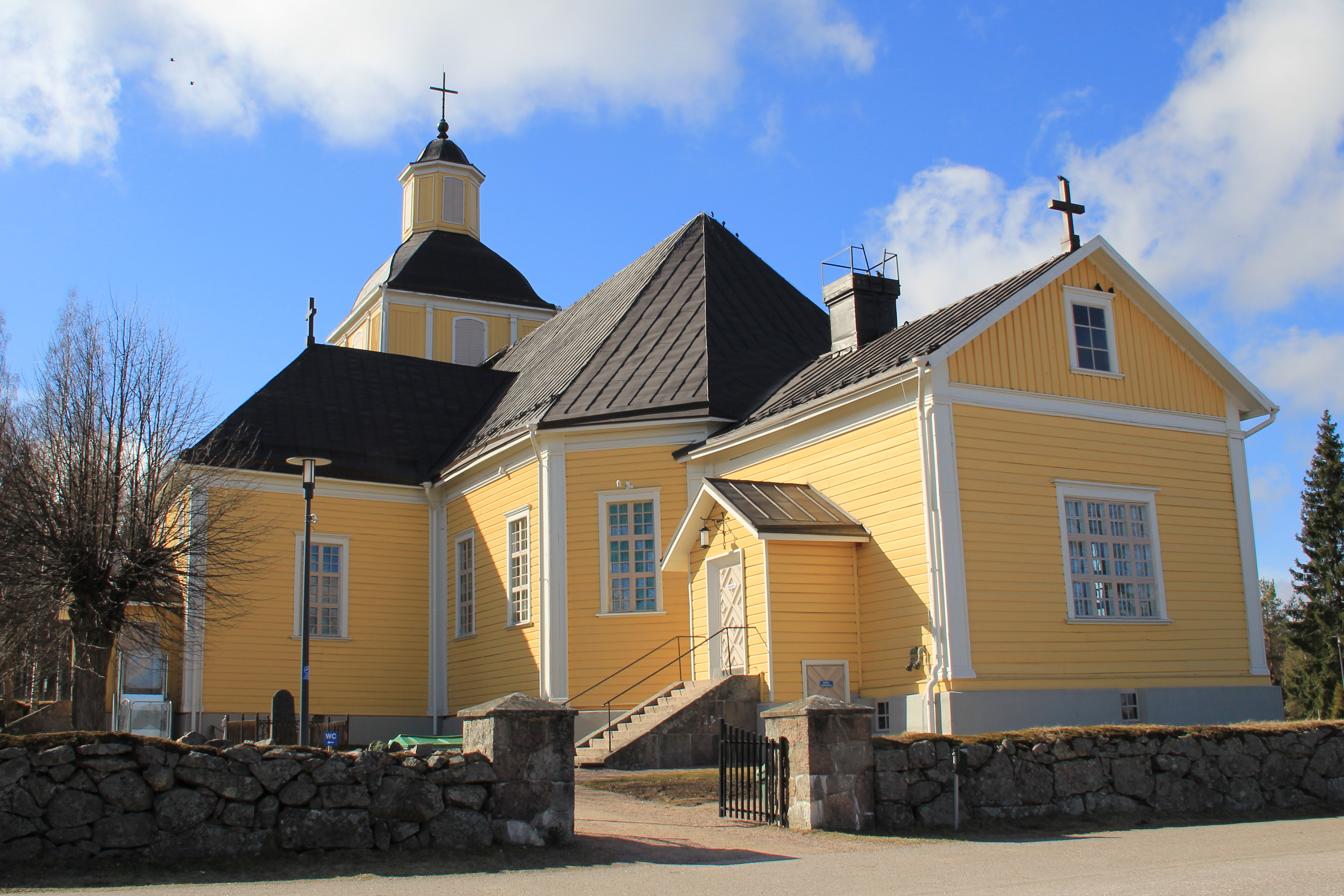 Hausjärvi Church in Hausjärvi, Finland. Built by Martti Tolpo, completed in 1789. Photo taken from southeast.